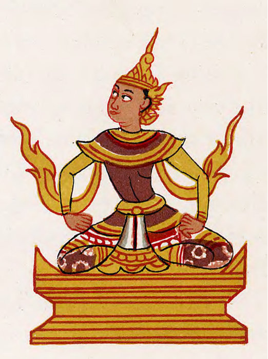 Sule Pagoda Nat (Sularata), the Guardian Nat of Yangon (Rangoon) in Burmese representation